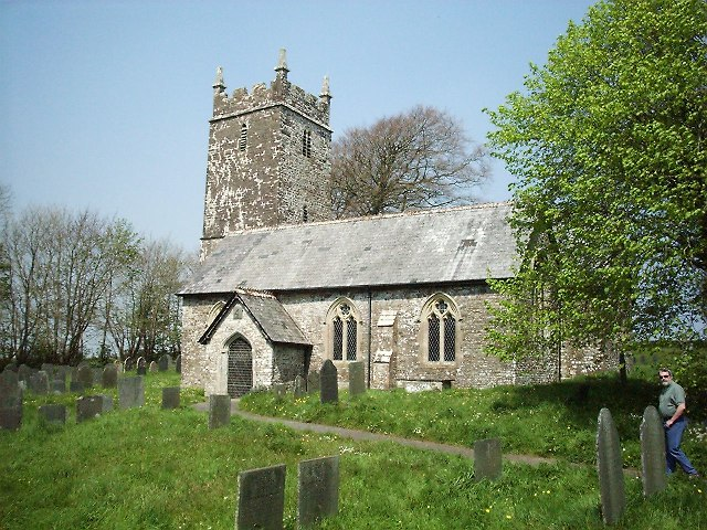 Newton St Petrock Church. Some of my BLIGHT ancestors came from here.